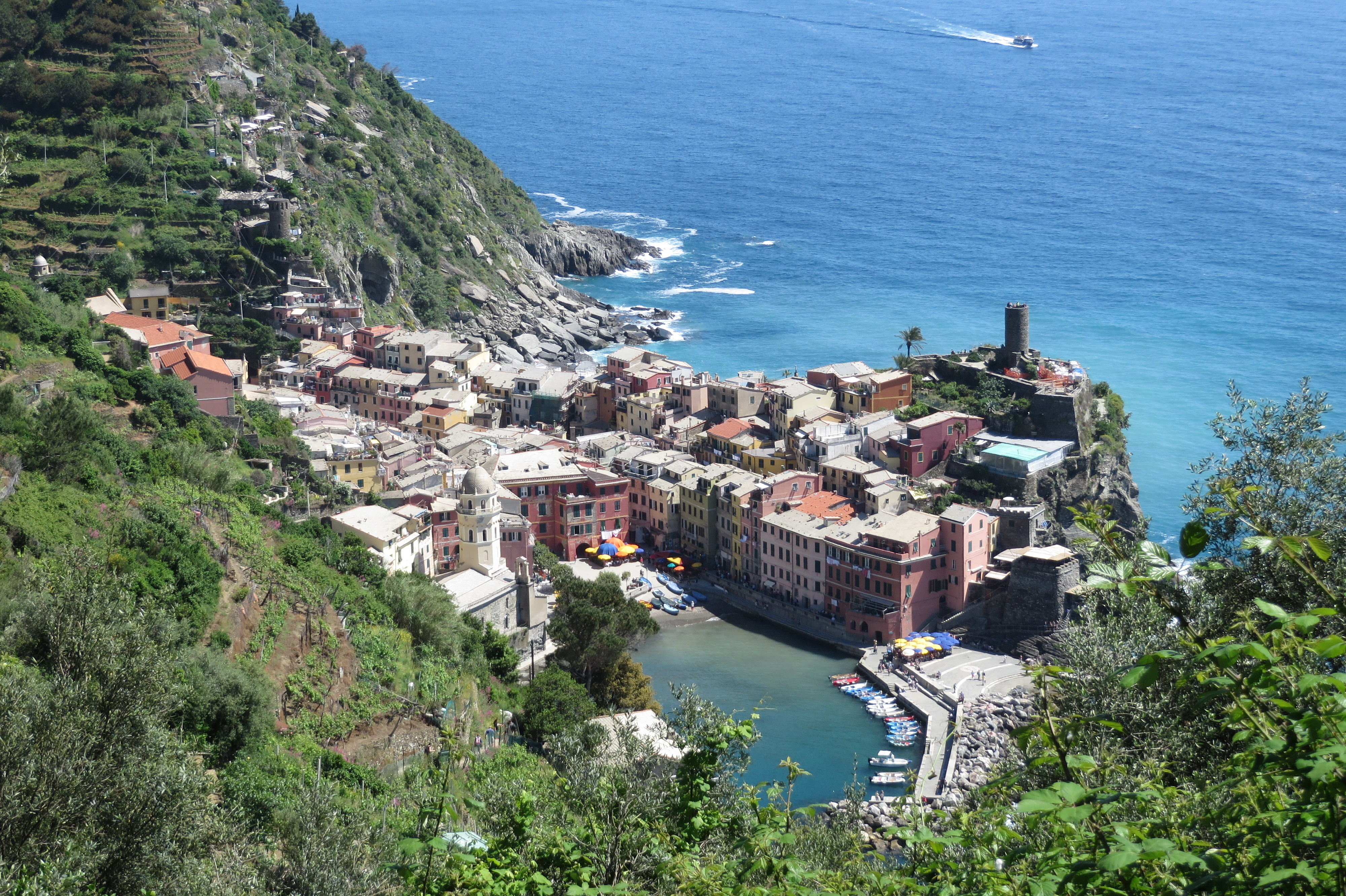 Vernazza, Liguria